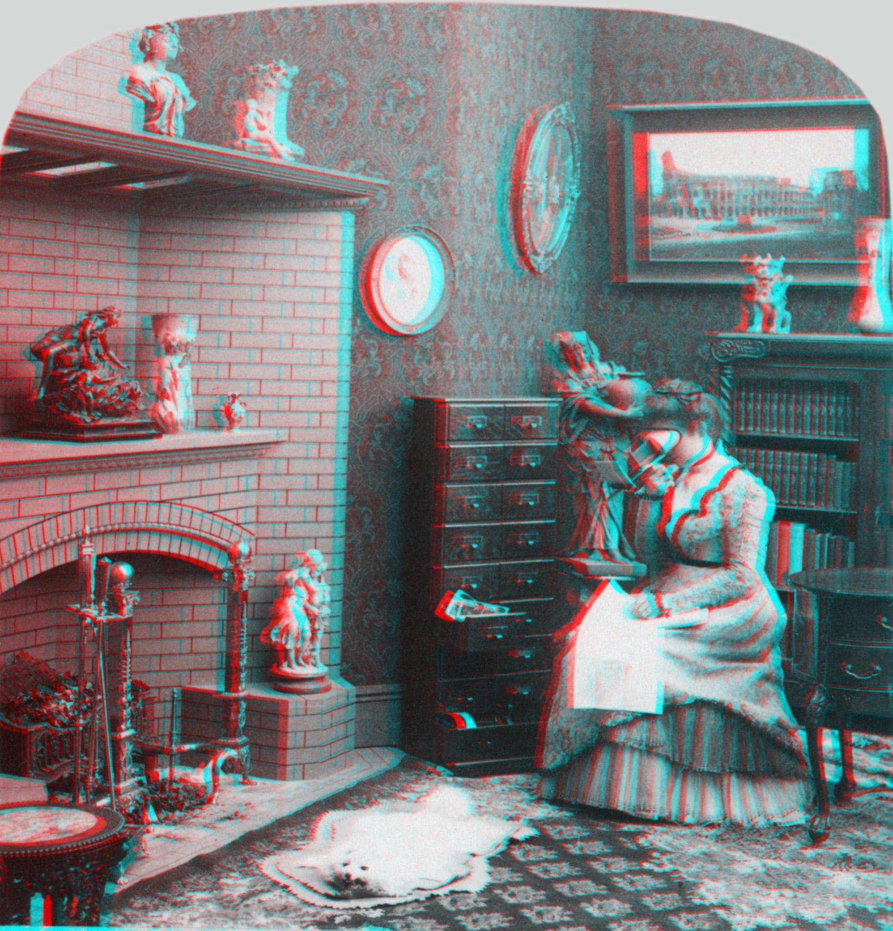 Anaglyphic conversion of Image:Stereograph as an educator.jpg Card caption: "The stereograph as an educator - Underwood patent extension cabinet in a home library." Library of Congress description: "Photograph shows a woman viewing stereographs in her home; she is sitting in front of a fireplace with a cabinet for stereographs on her right."